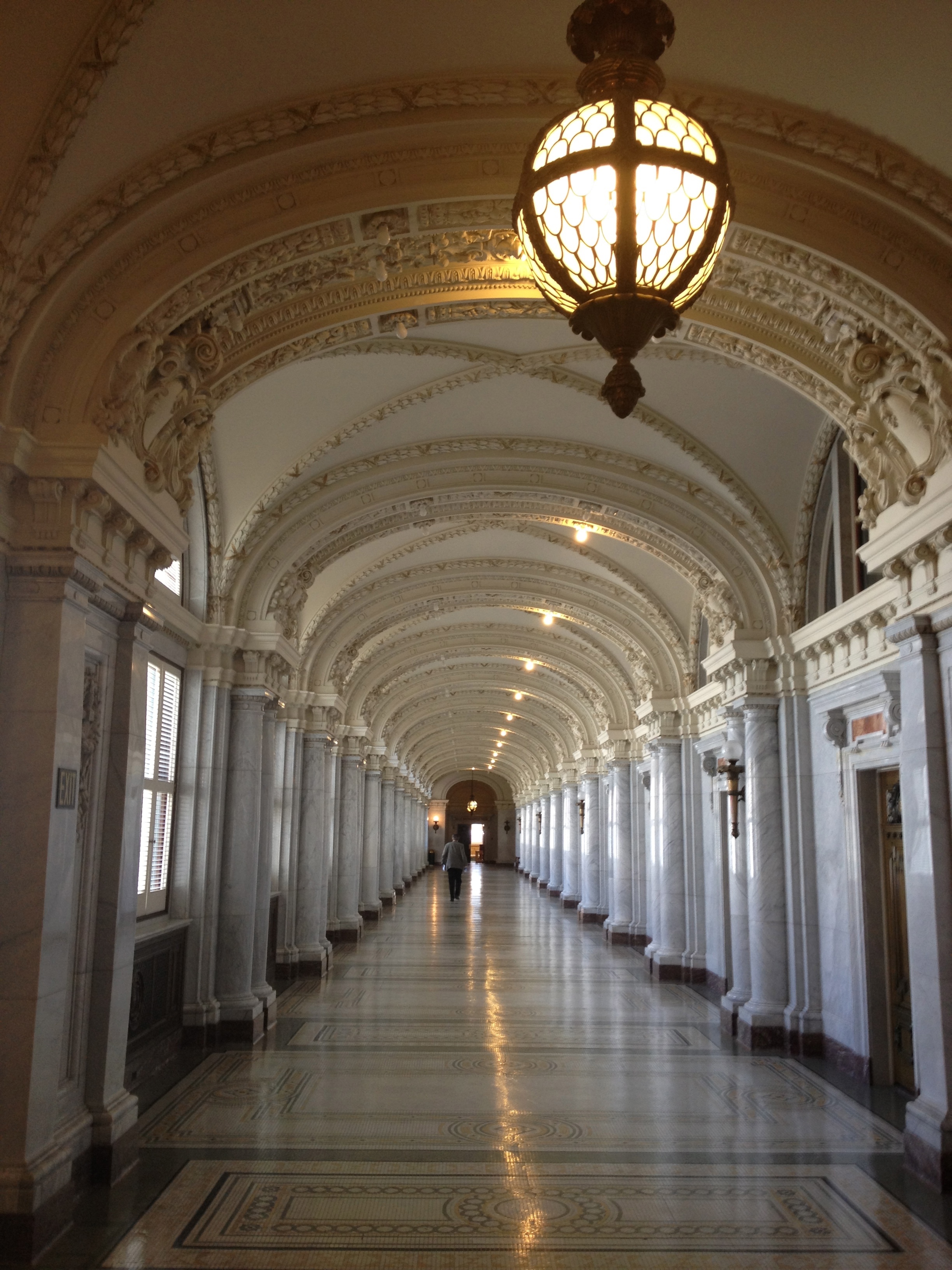 A hallway in the James R. Browning Courthouse in San Francisco.